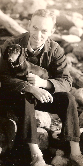 A family photograph of E. B. White, cropped from a photo of him and his wife.